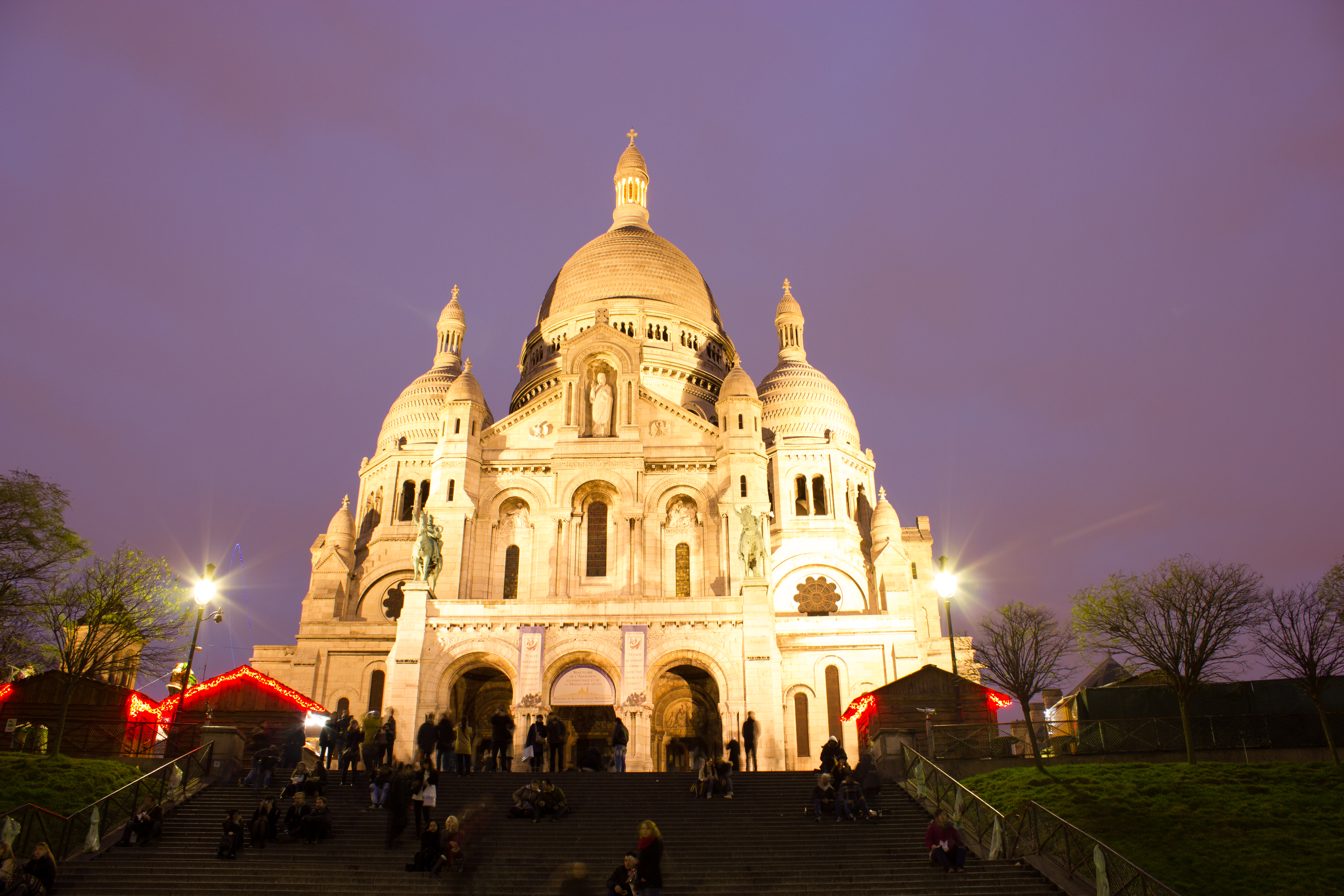 Sacré-Cœur, Paris at night